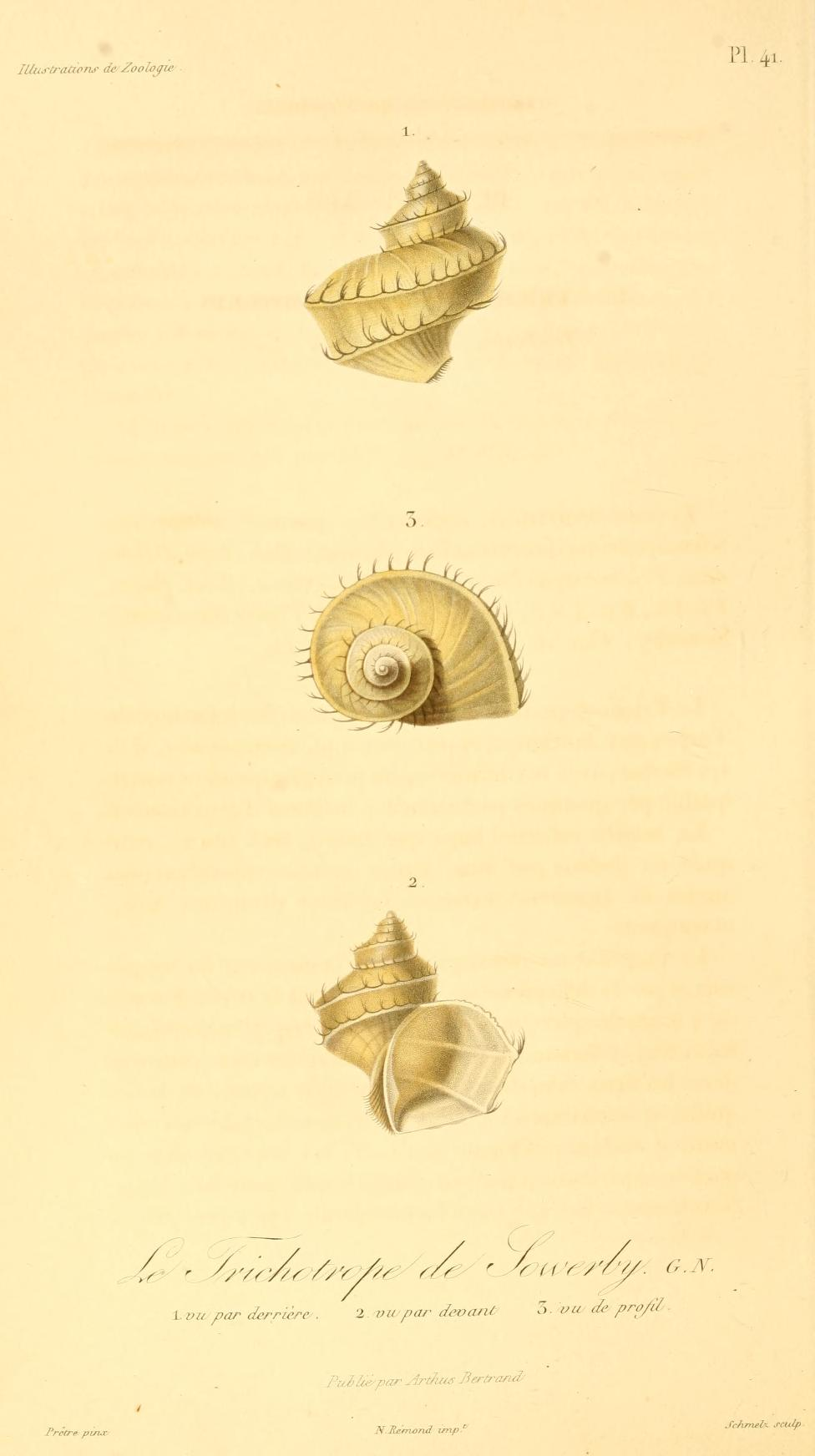 « Trichotrope de Sowerby, Trichotropus Sowerbiensis » = Trichotropis bicarinata